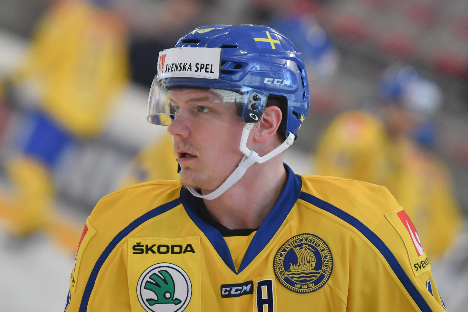 6/4/2017, Vienna, Austria, Sport, Ice Hockey, Friendly match Austria vs Sweden.